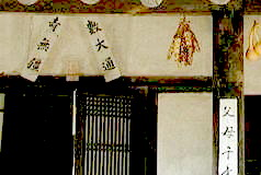 Hanok, Korean traditional house at Korean Folk Village (Minsokchon) in Yongin, Gyeonggi-do, Korea